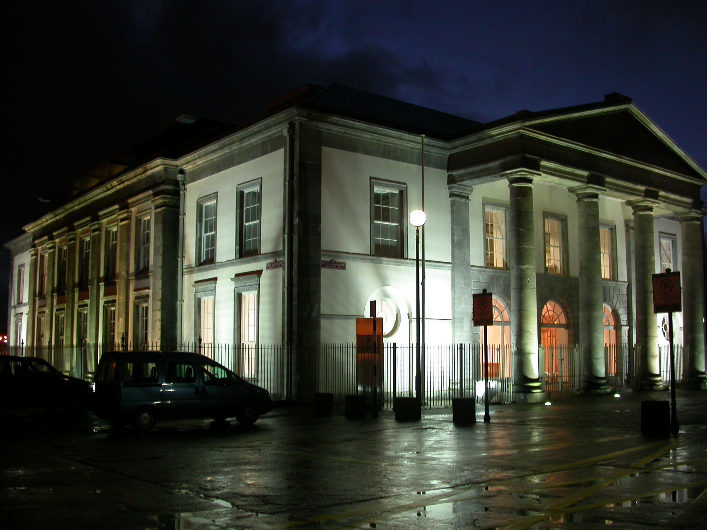 Teach na Cuirte, Luimneach, tar eis a ath-thogail, 2004, togtha ag Sean an Scuab